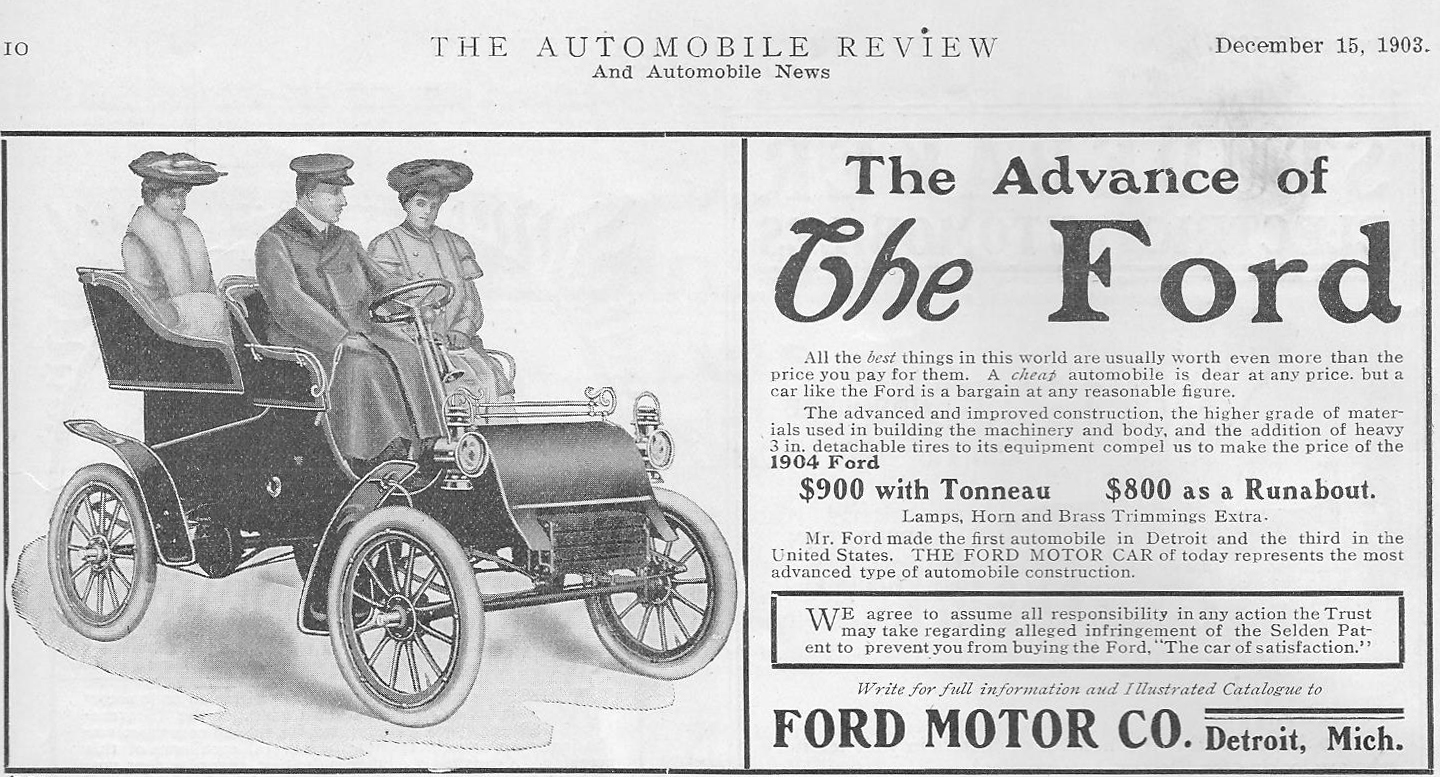 December, 1903 Ford advertisement